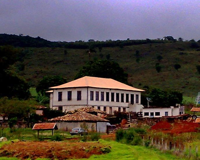 Fazenda Quilombo, 9 km far from the city of Alpinópolis-MG, Brazil